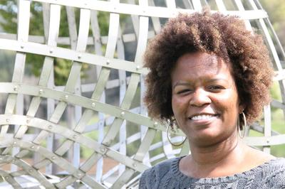 Mathematician Chelsea Walton at the mini-workshop on Infinite Dimensional Hopf Algebras, Mathematical Research Institute of Oberwolfach, 2014